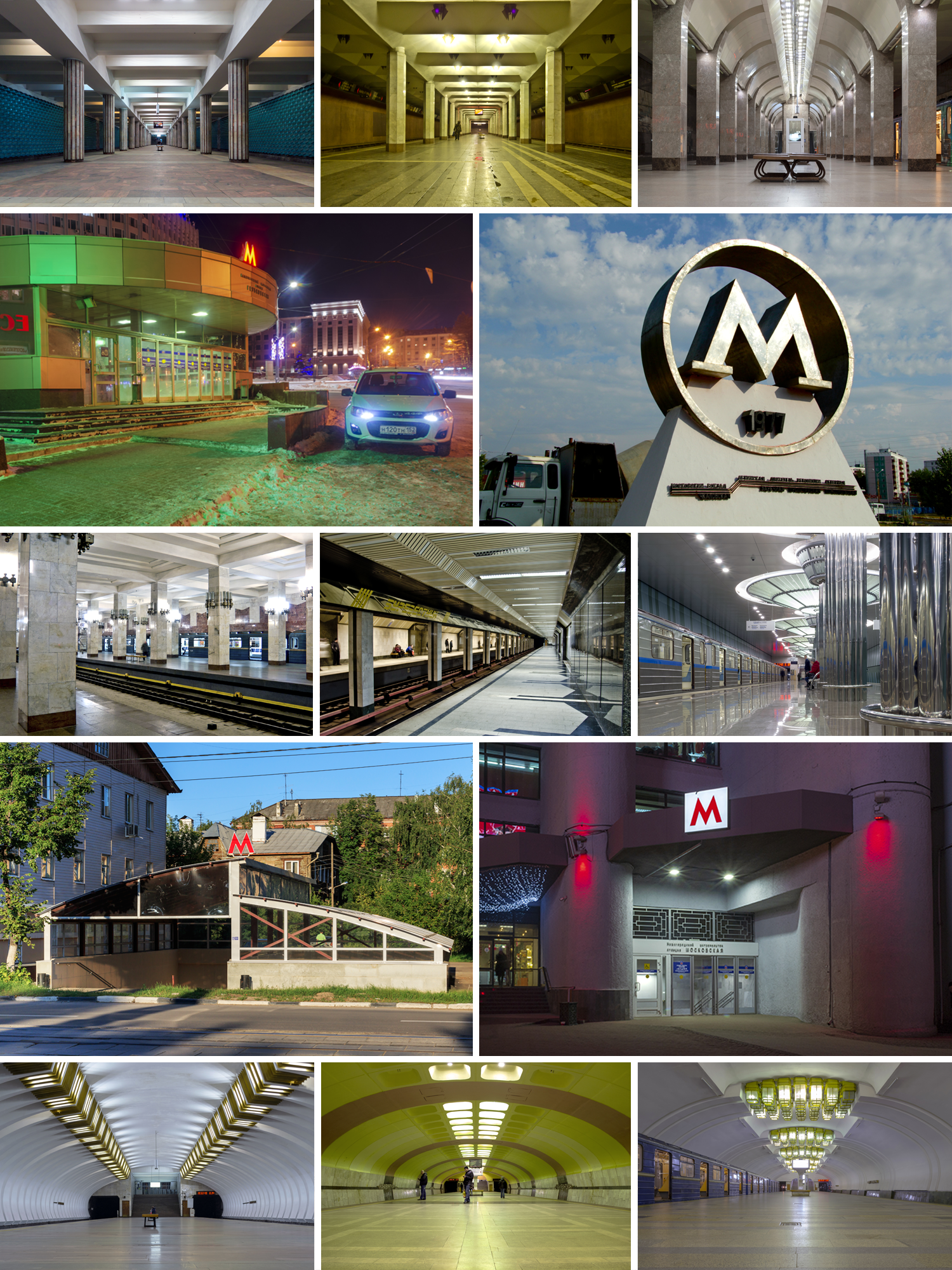 Stations of Nizhny Novgorod Metro